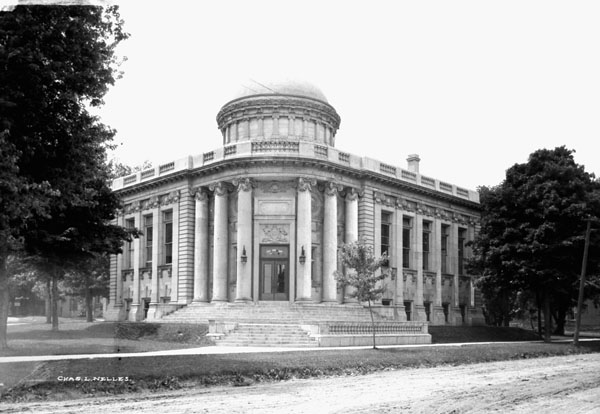 Guelph Public Library building, demolished in 1964.